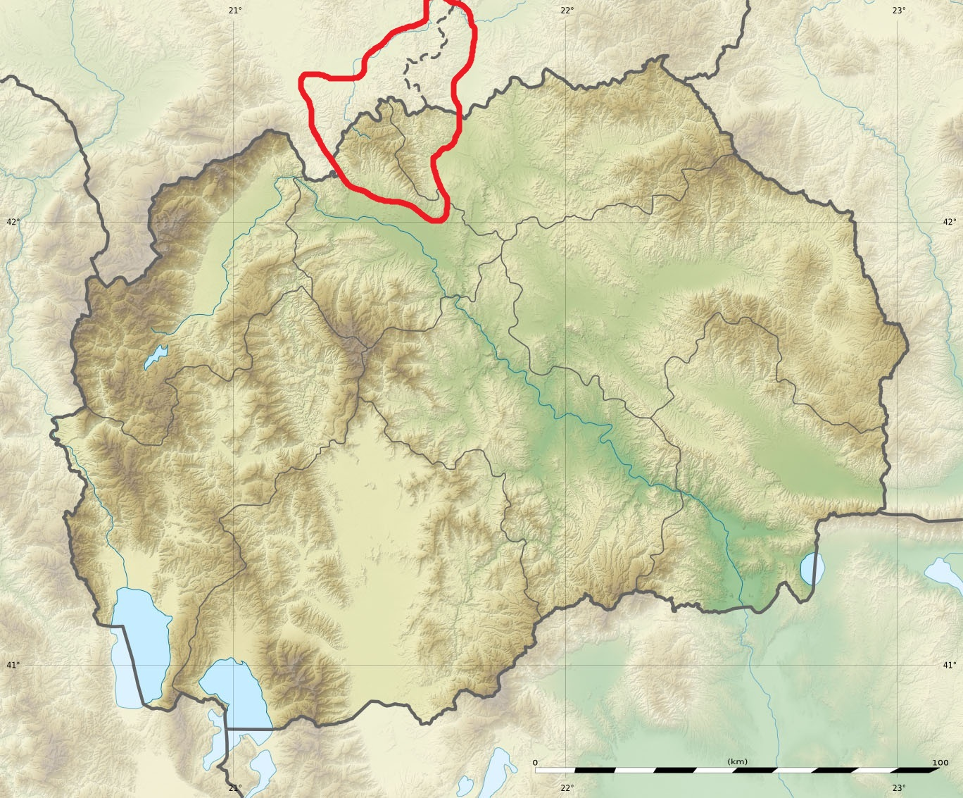 Physical map of the Skopska Crna Gora in the Republic of Macedonia.